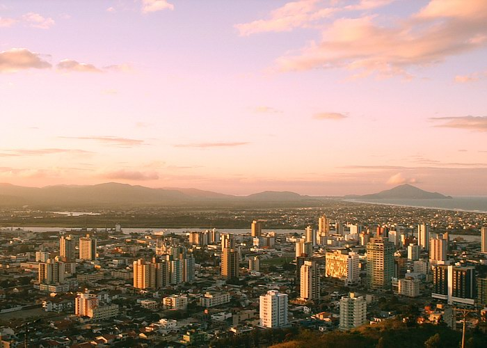 Partial view of Itajaí downtown